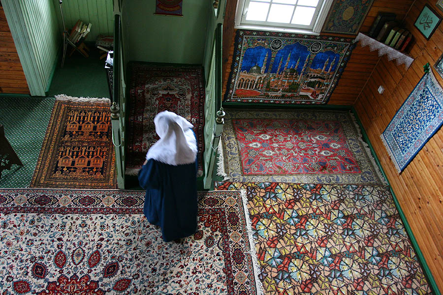 The Interior of the Tatarian Mosque at the Village of Bohoniki, Poland